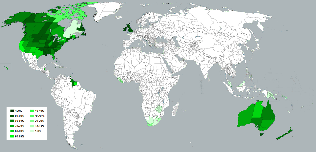 Map of English native speakers